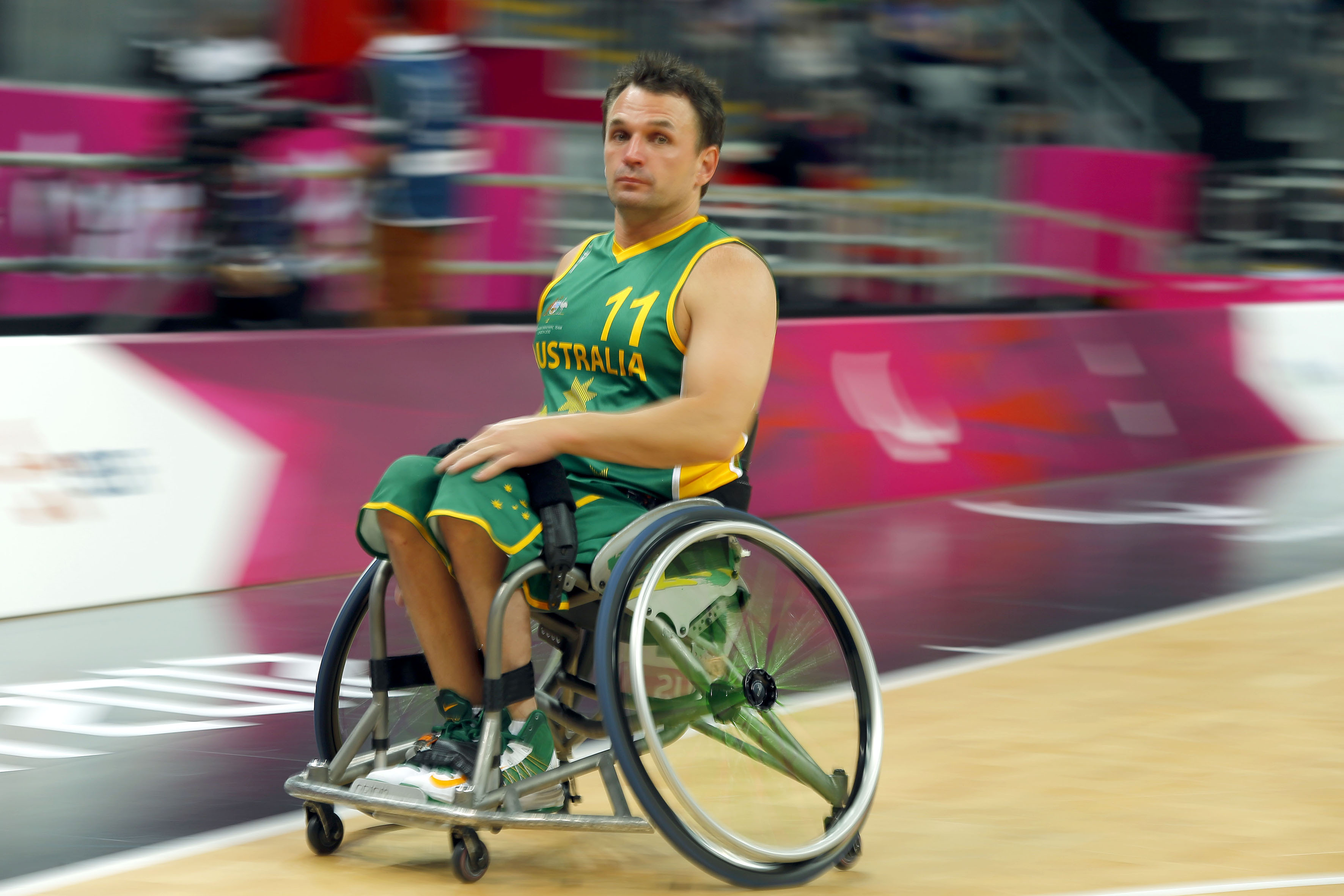 Photograph of Australian Paralympic team member Tige Simmons at the 2012 Summer Paralympic Games in London